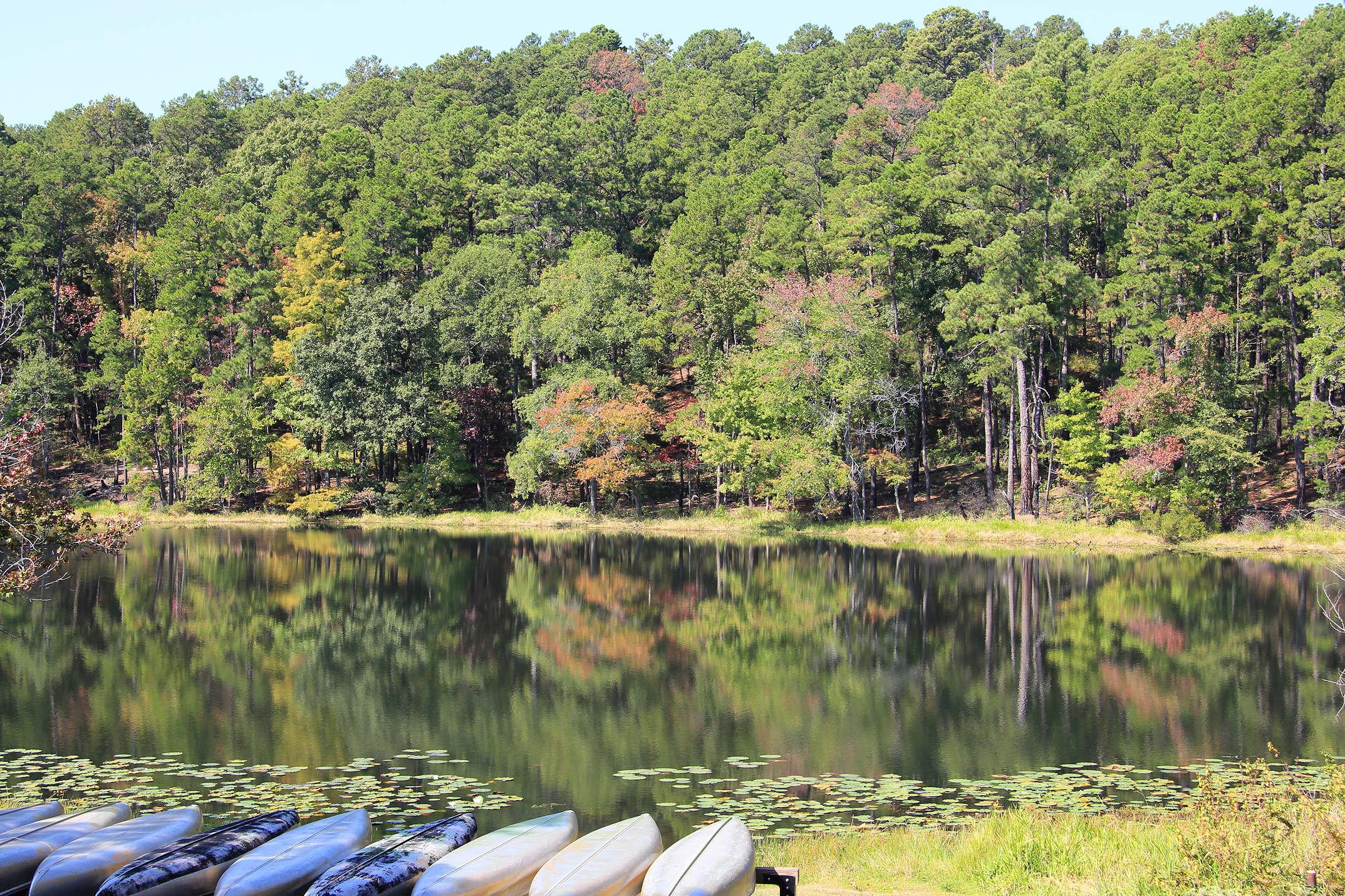 Reflection of Daingerfield State Park in Lake Daingerfield, Morris County, Texas, United States.